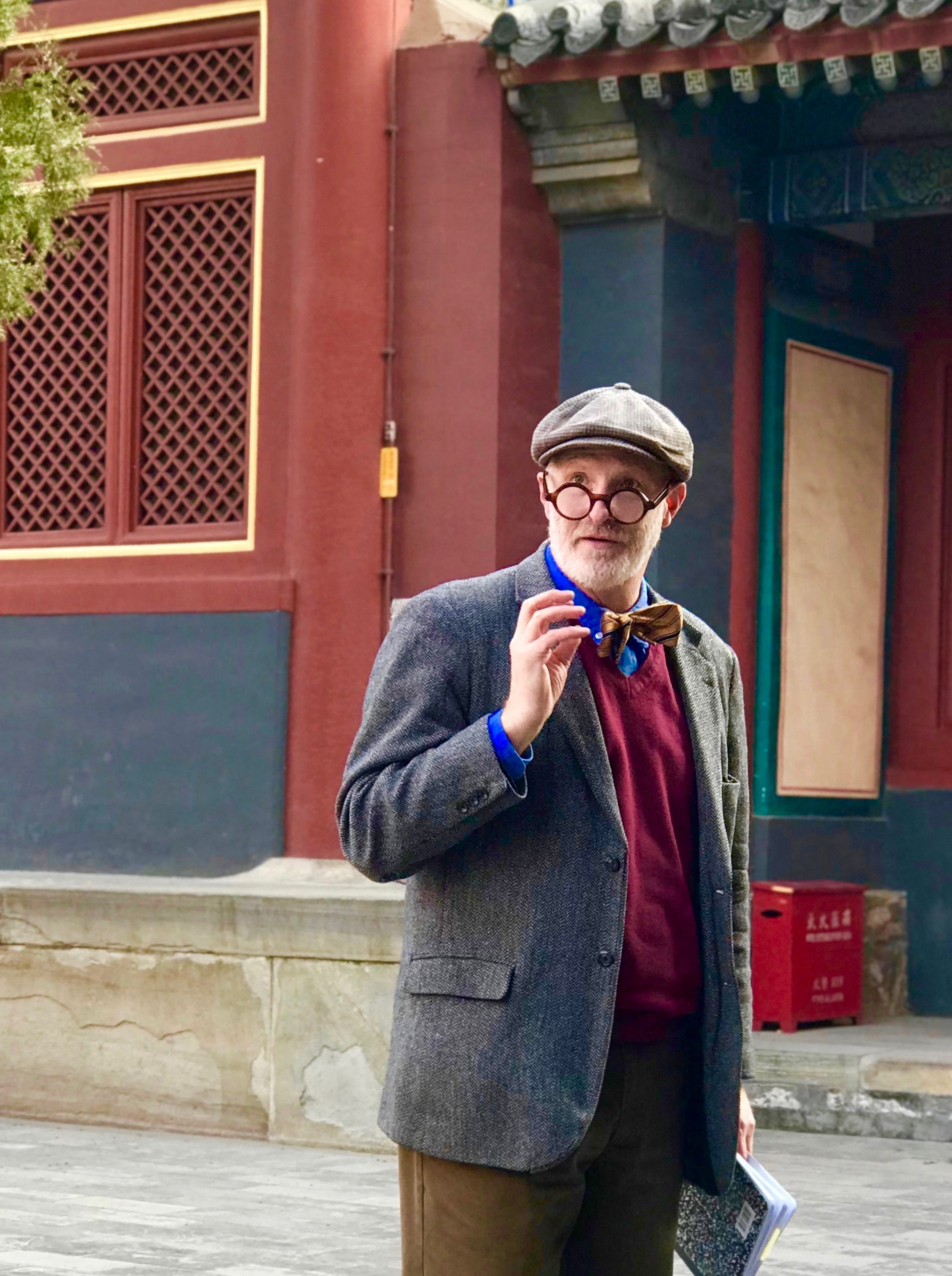 Anthony E. Clark, Ph.D.